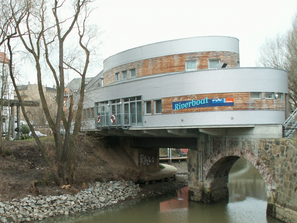 Riverboat concert hall in Leipzig, Karl-Heine-Kanal